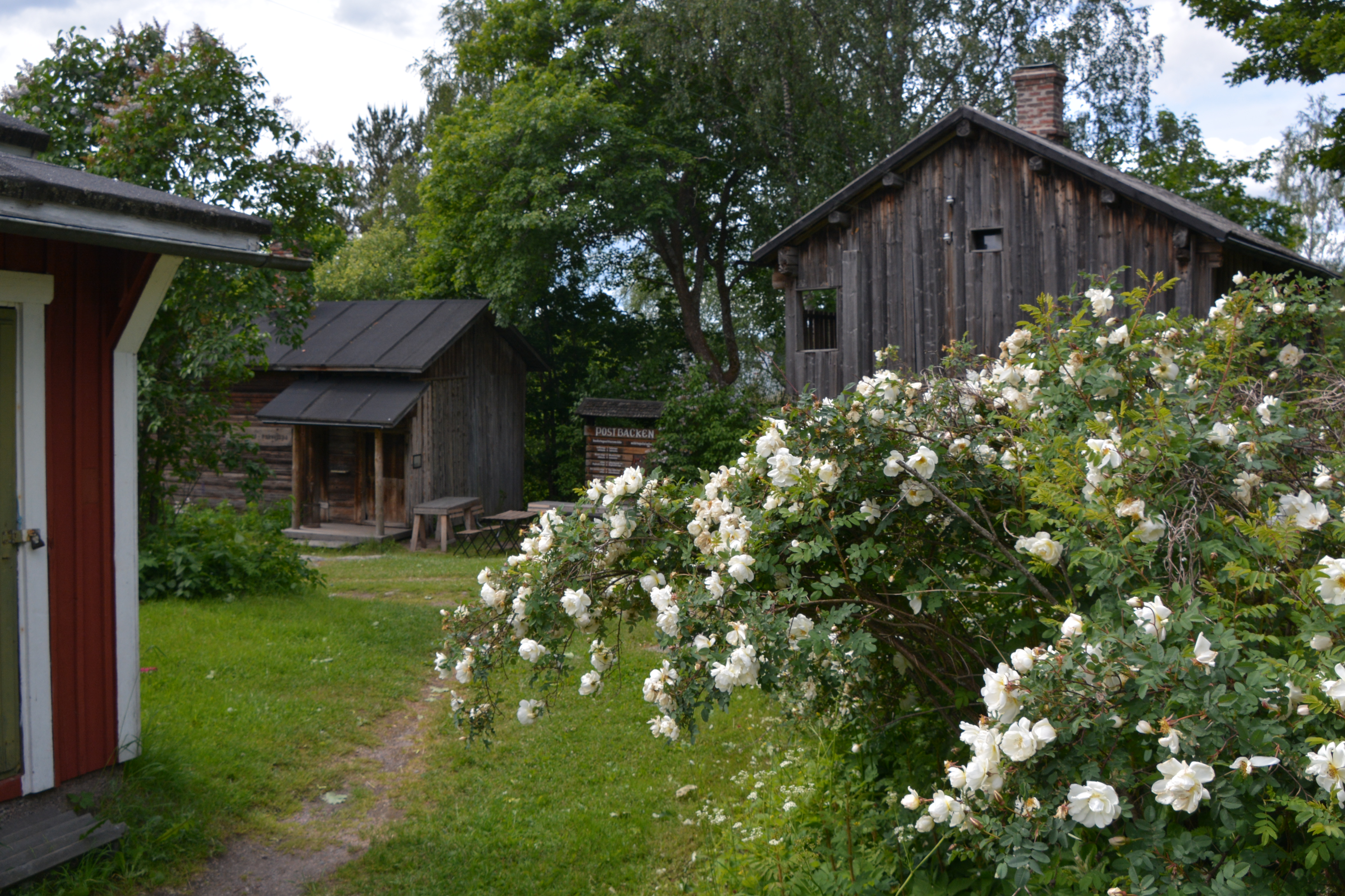 Postbacken, outdoor museum in Illby, Borgå kommun